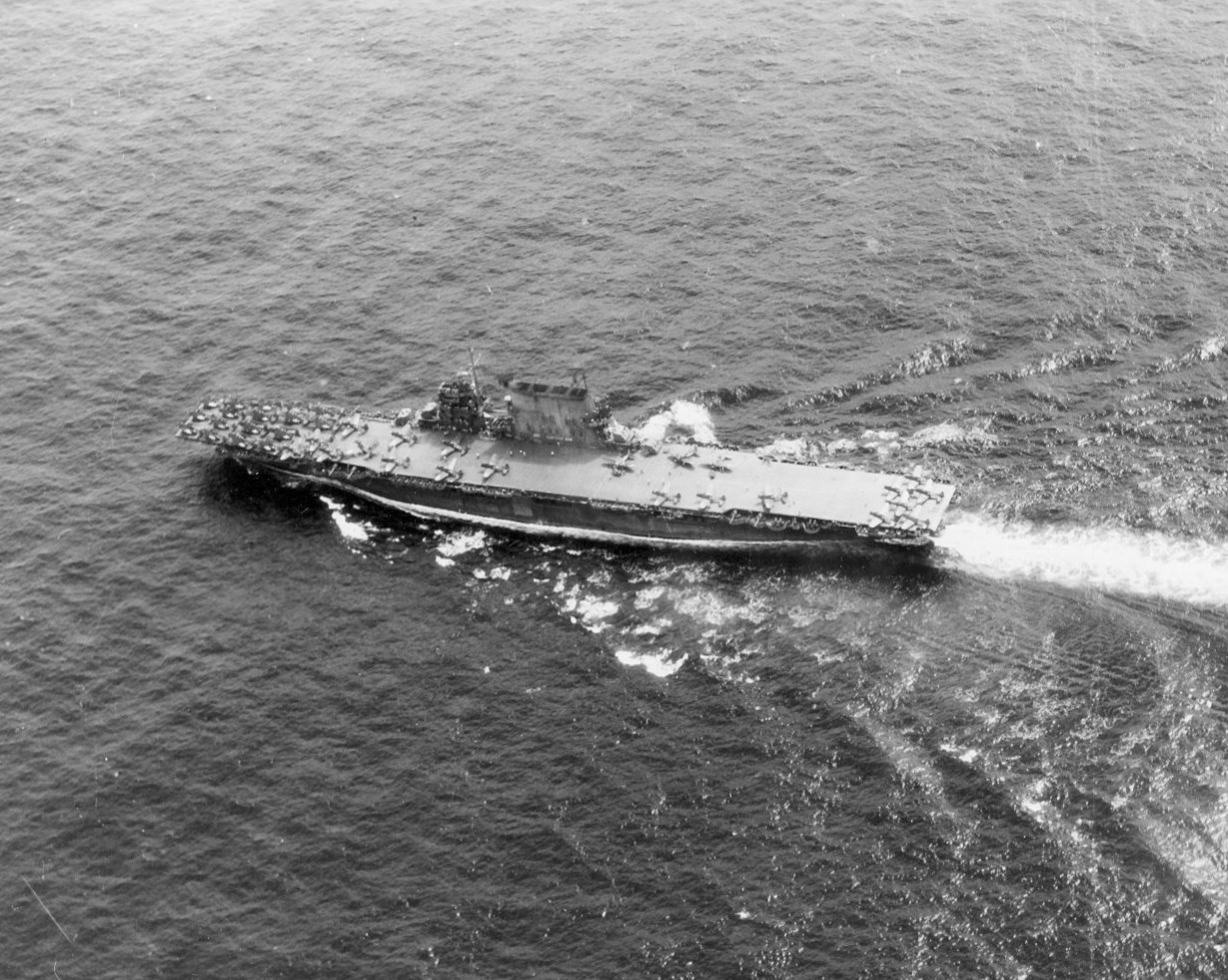 The U.S. Navy aircraft carrier USS Saratoga (CV-3) on 8 February 1944. The photo was taken from one of her planes of Carrier Air Group 12 (CVG-12), of which many aircraft are visible on deck, mainly Douglas SBD Dauntless dive bombers and Grumman F6F Hellcat fighters.